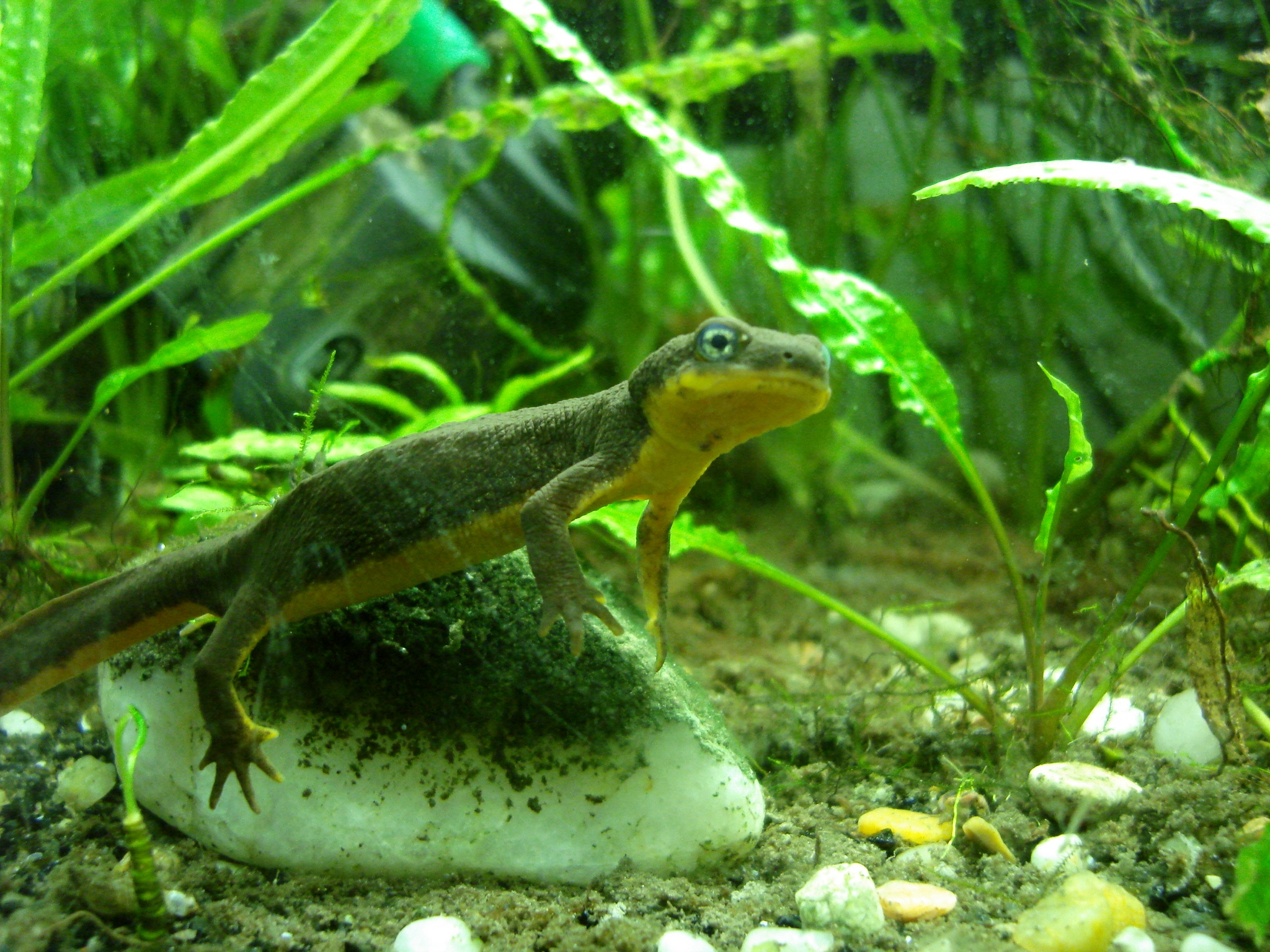 Taricha torosa